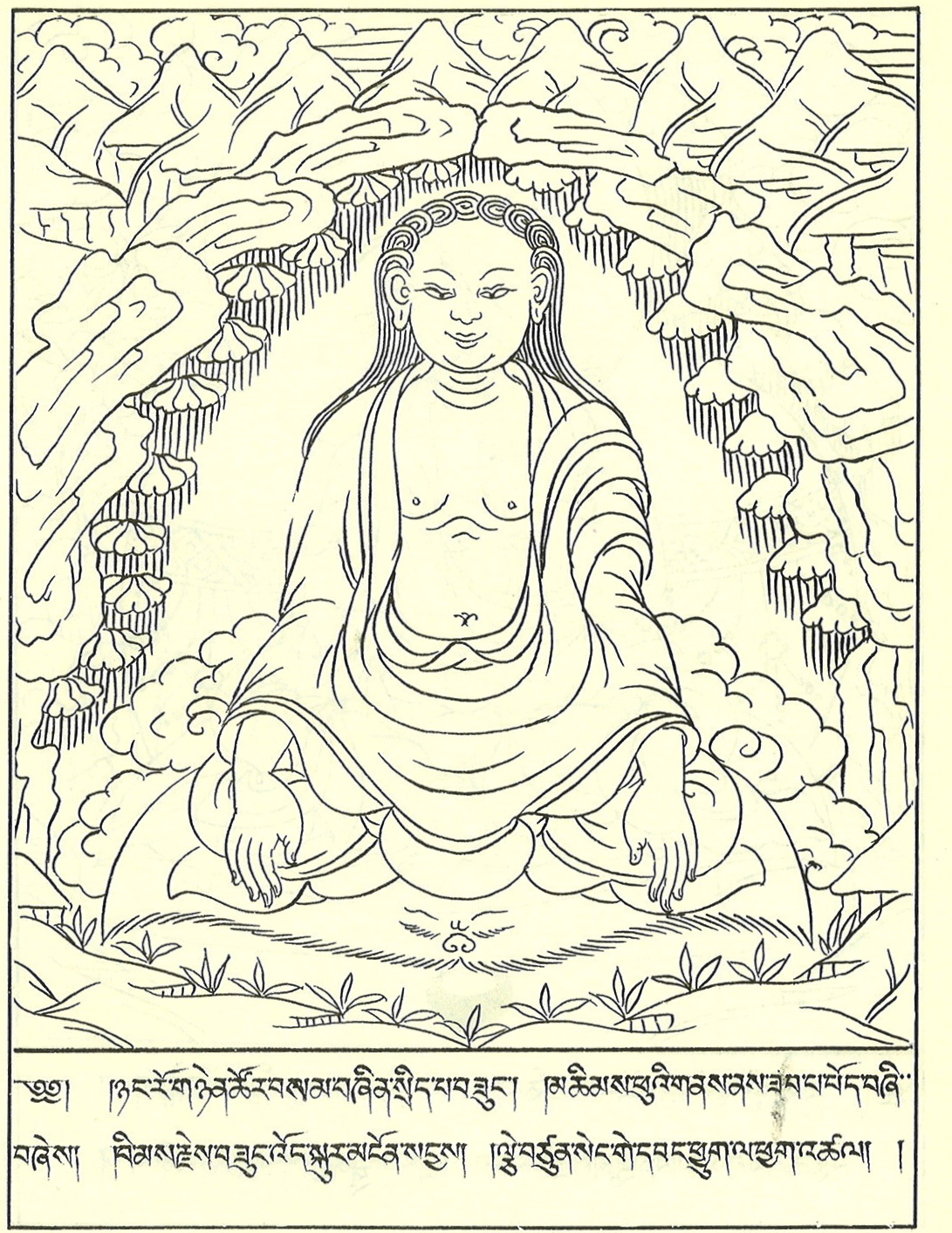 Chetsun Sengge Wangchuk, 12th Century Nyingma monk